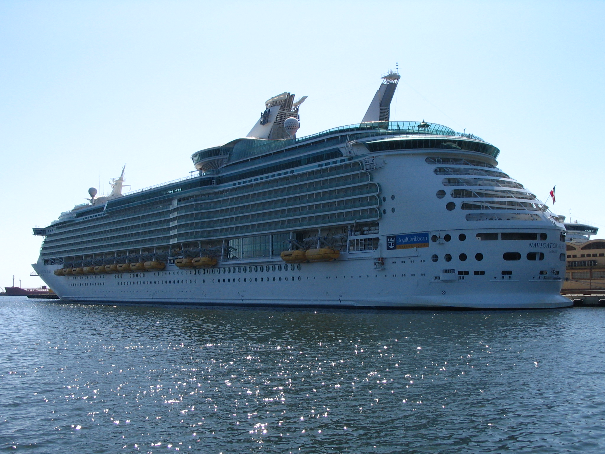 Navigator of the Seas w Porcie, w Gdyni